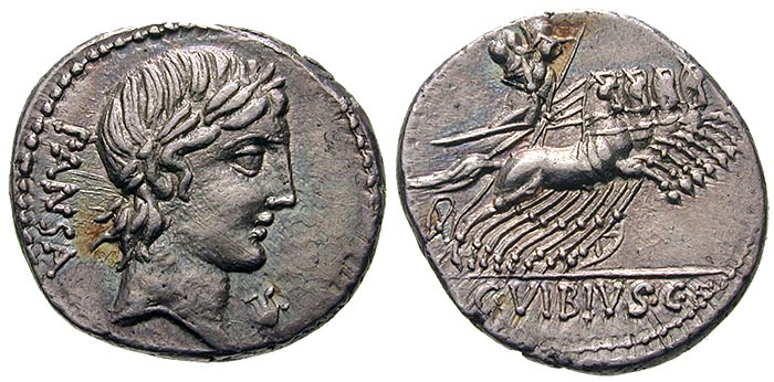 C. Vibius C. f. Pansa. Denarius (AR; 17-18mm; 3.86g; 4h) 90 BC. PANSA Head of Apollo to right; before, turtle. C VIBIVS C F Minerva in quadriga galloping to right; she holds trophy in her r. hand, and spear and reins with her l.